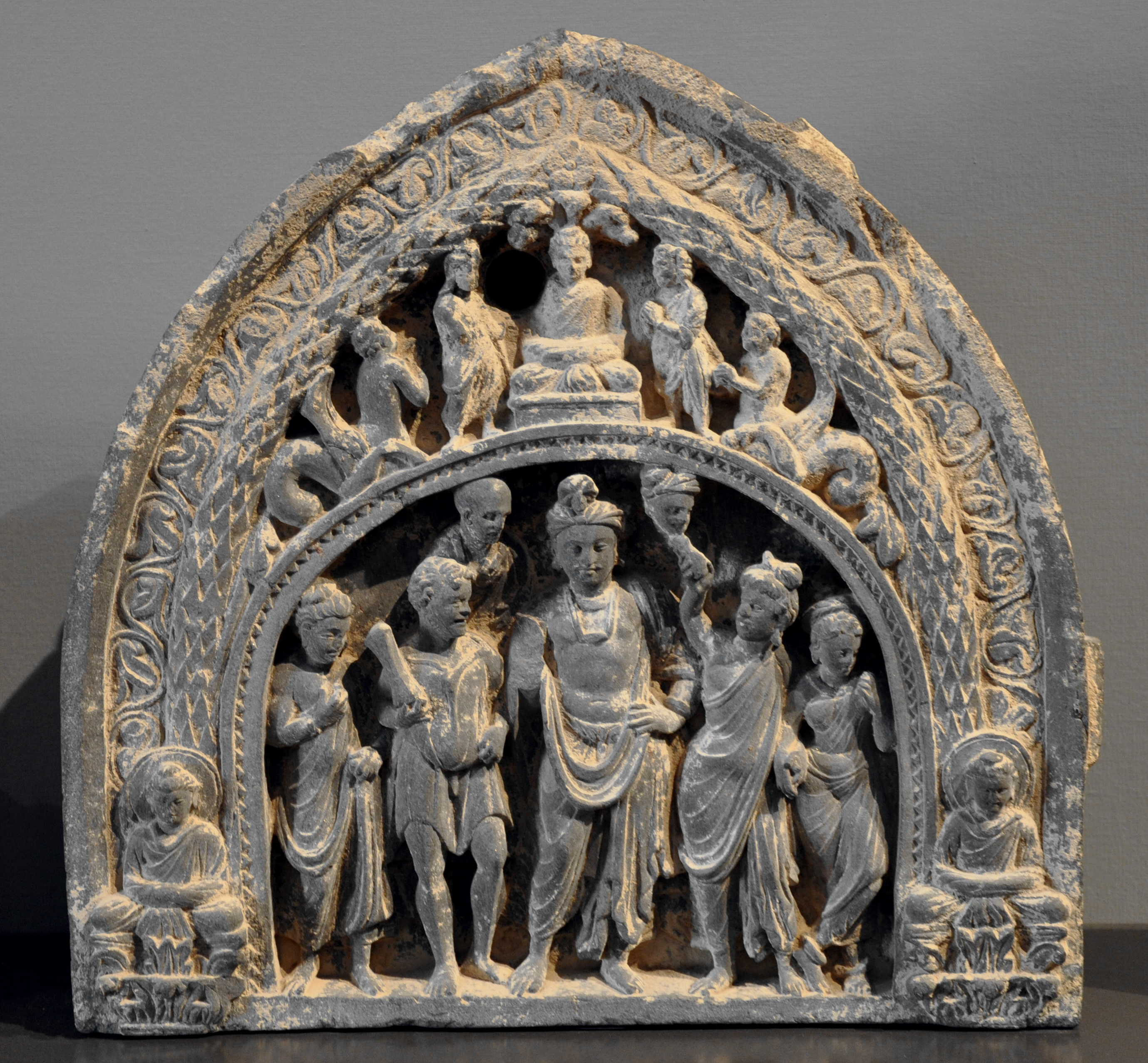 The wedding of Prince Siddhartha, Pakistan, Gandhara area, 3rd/4th century; slate Museum Rietberg, Zurich; donation of the Elisabeth de Boer Foundation; Inv. No. RVI 27